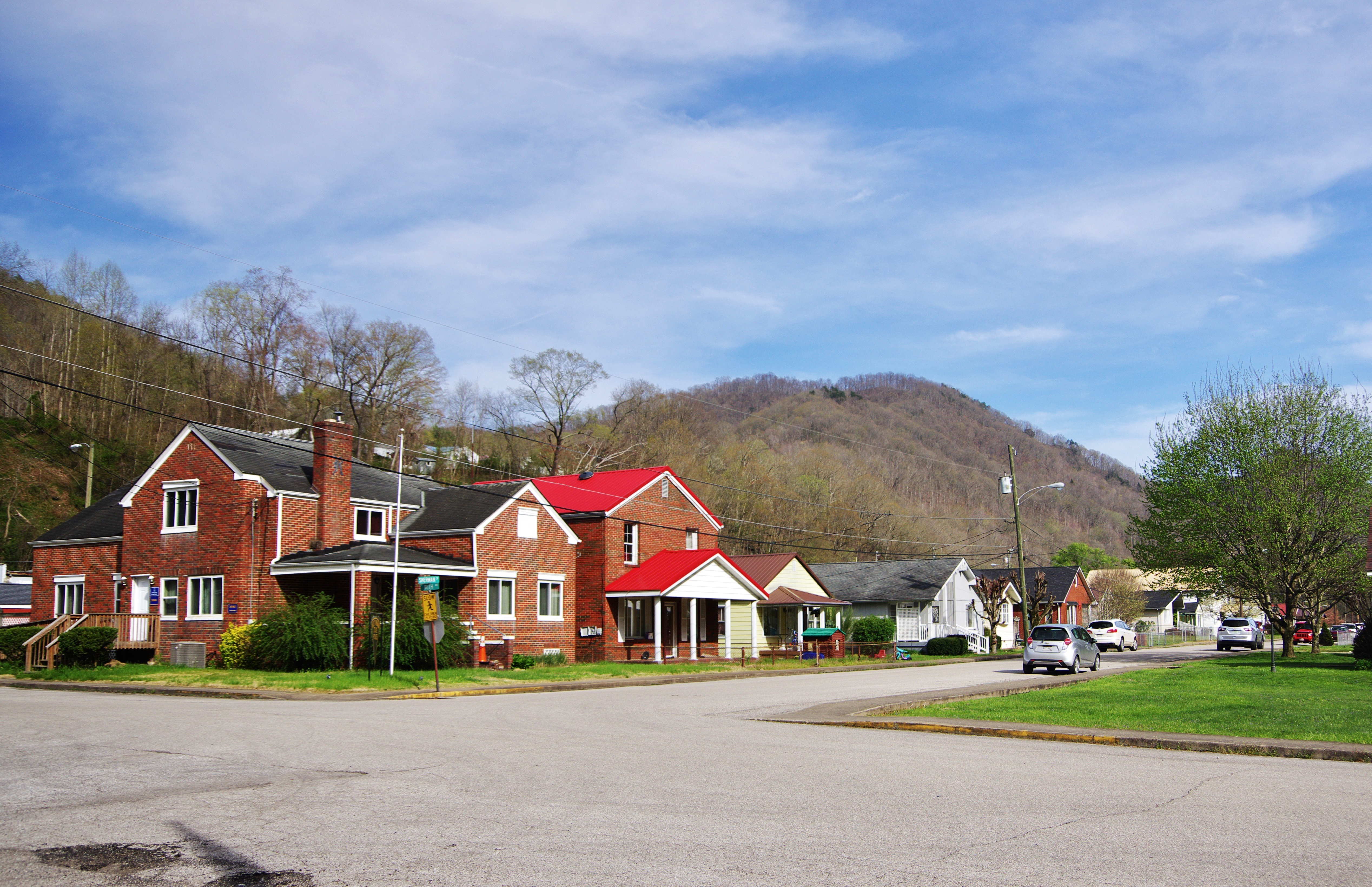 Houses along Round Bottom Road in Sylvester, West Virginia, United States.